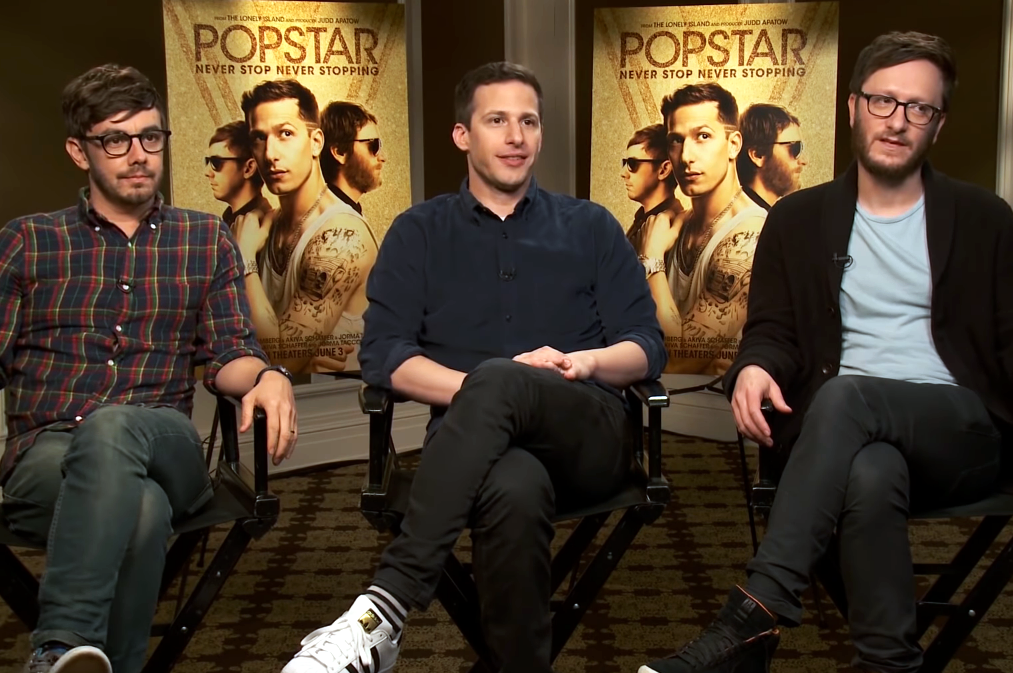 The Lonely Island in an interview with Uproxx for their movie "Popstar," 2016.